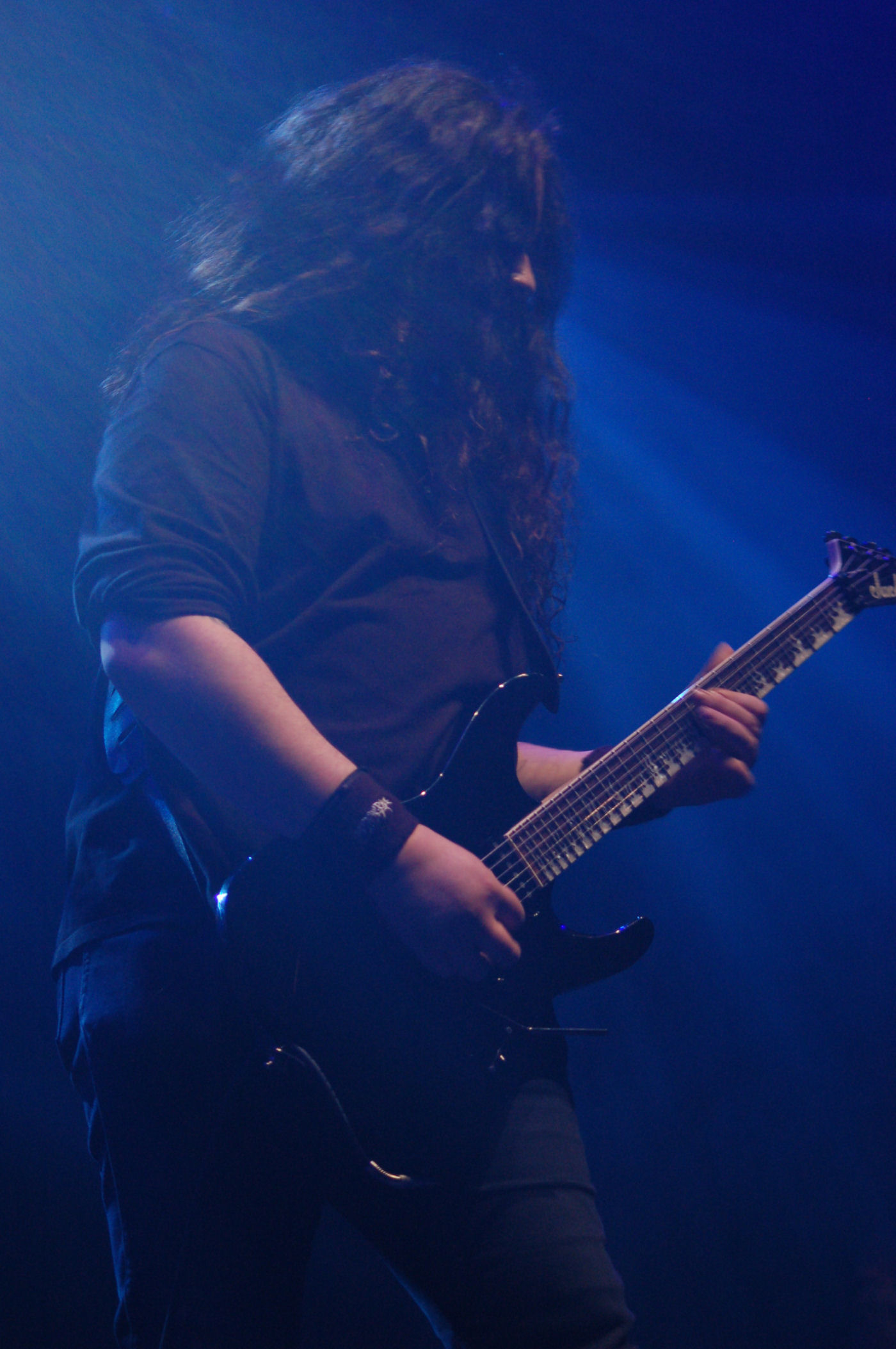 Hamish Glencros from My Dying Bride during Metalmania 2007 festival